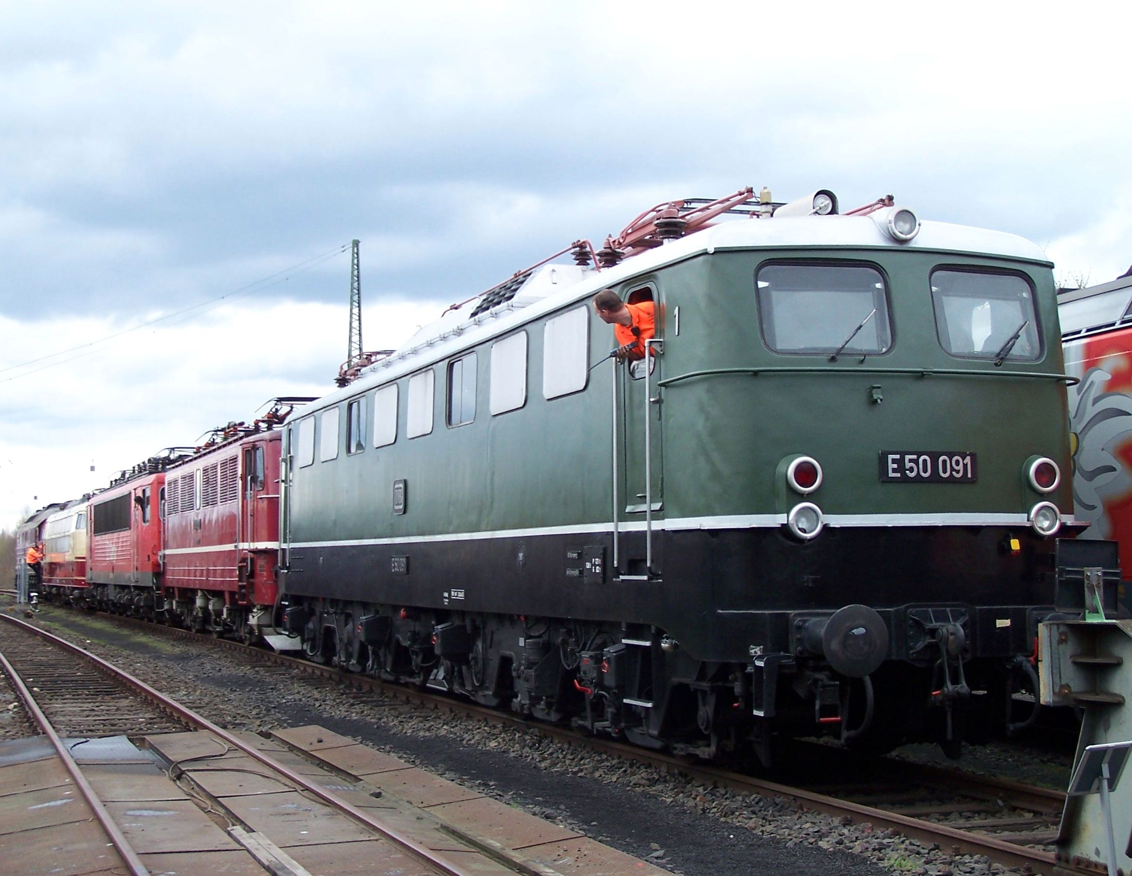 Electric locomotives E50 091, 211 001, 155 001, 103 113 and 130 101 after a locomotive parade at the DB Museum in Koblenz-Lützel, a local branch of the Transport Museum in Nuremberg, April 2010